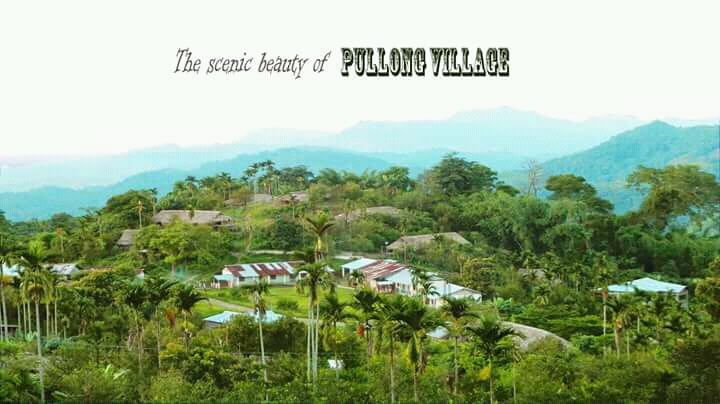 Mesmerising beauty of Pullong Village. It is known to be the oldest village in the region. People of this village speaks ancient dialect Kasik